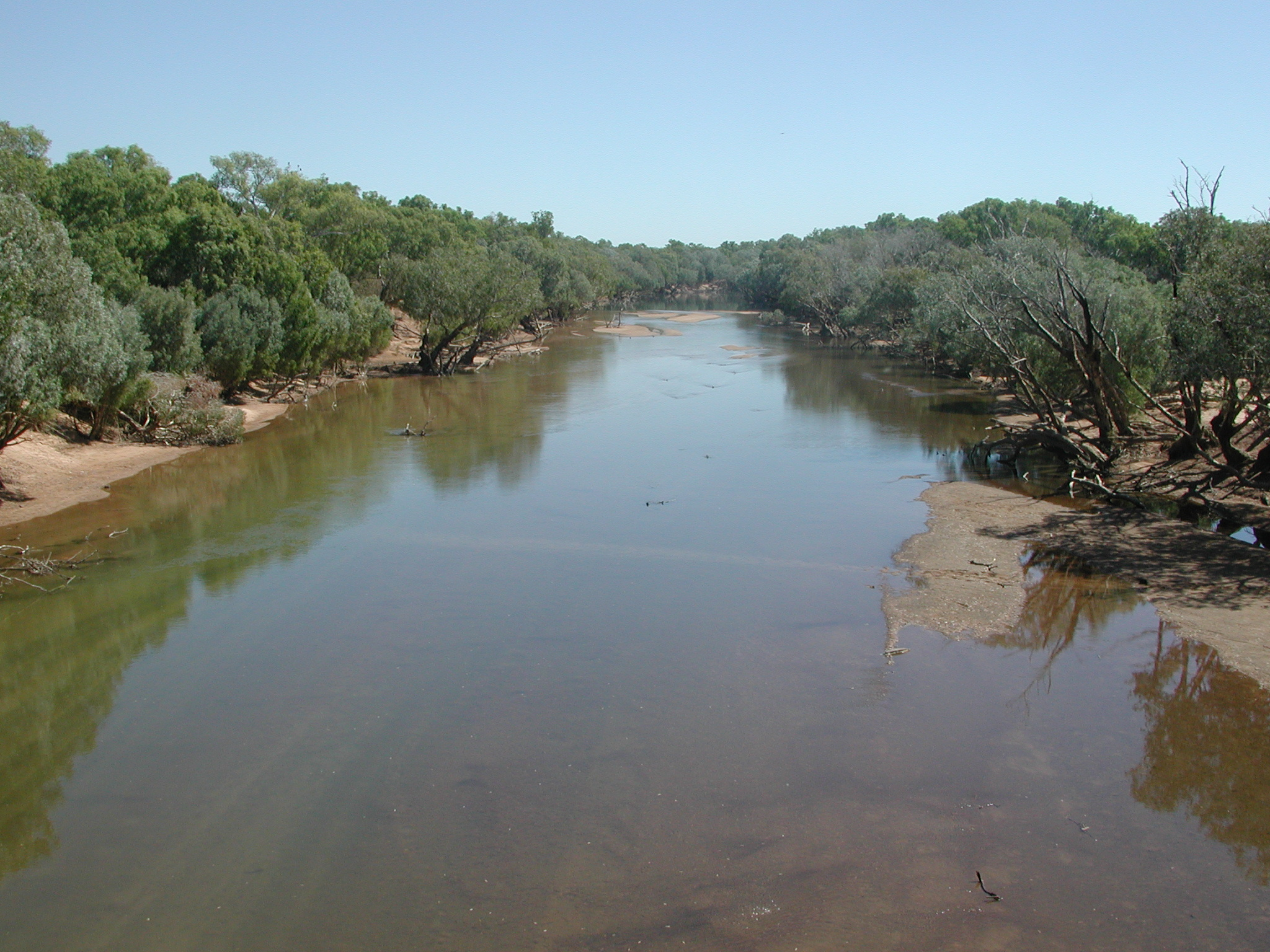 One channel of the Fitzroy River in Western Australia. Looking north from from Willare Bridge. The 2006 dry season. Author: PeterWH